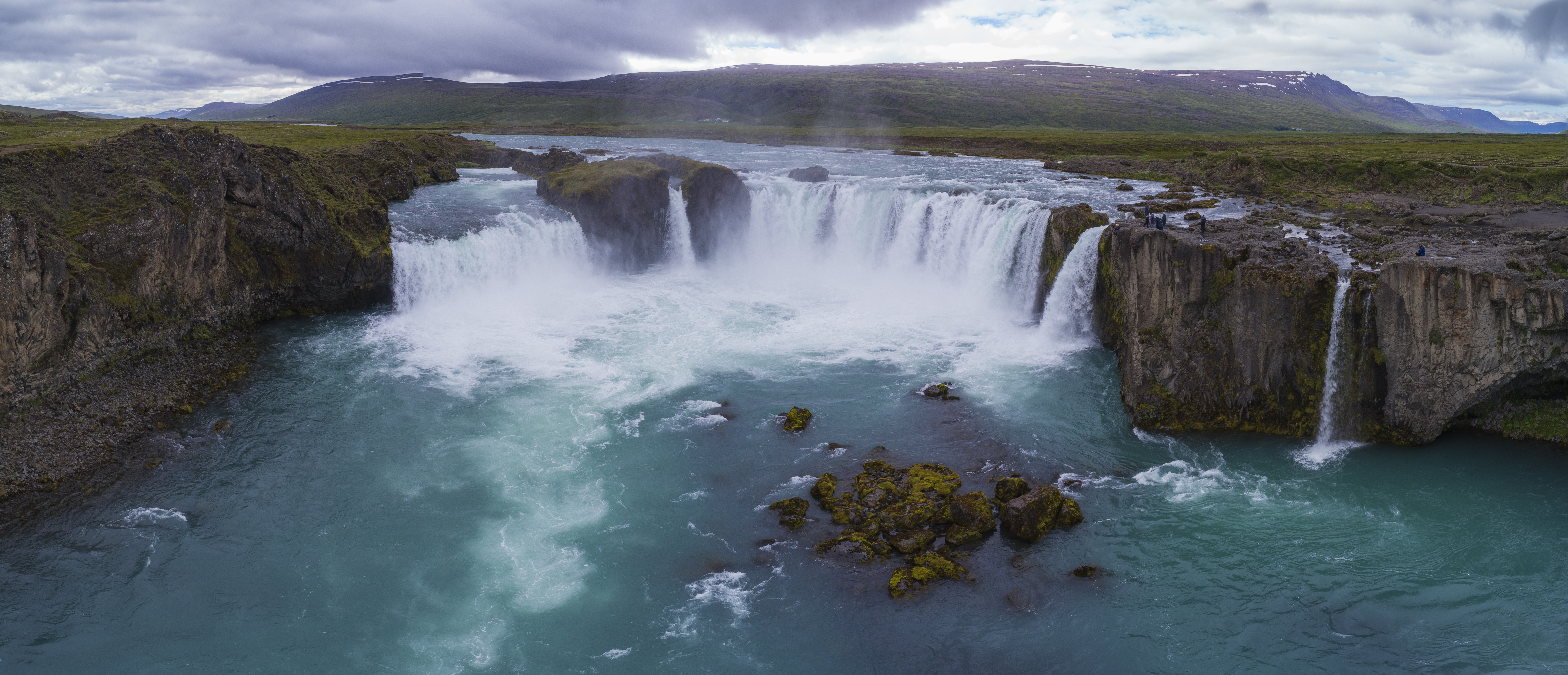 Goðafoss aerial pano iceland 2017